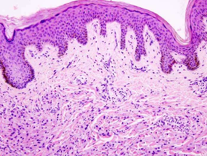 Histopathologic image of granular cell tumor of the skin. H & E stain.